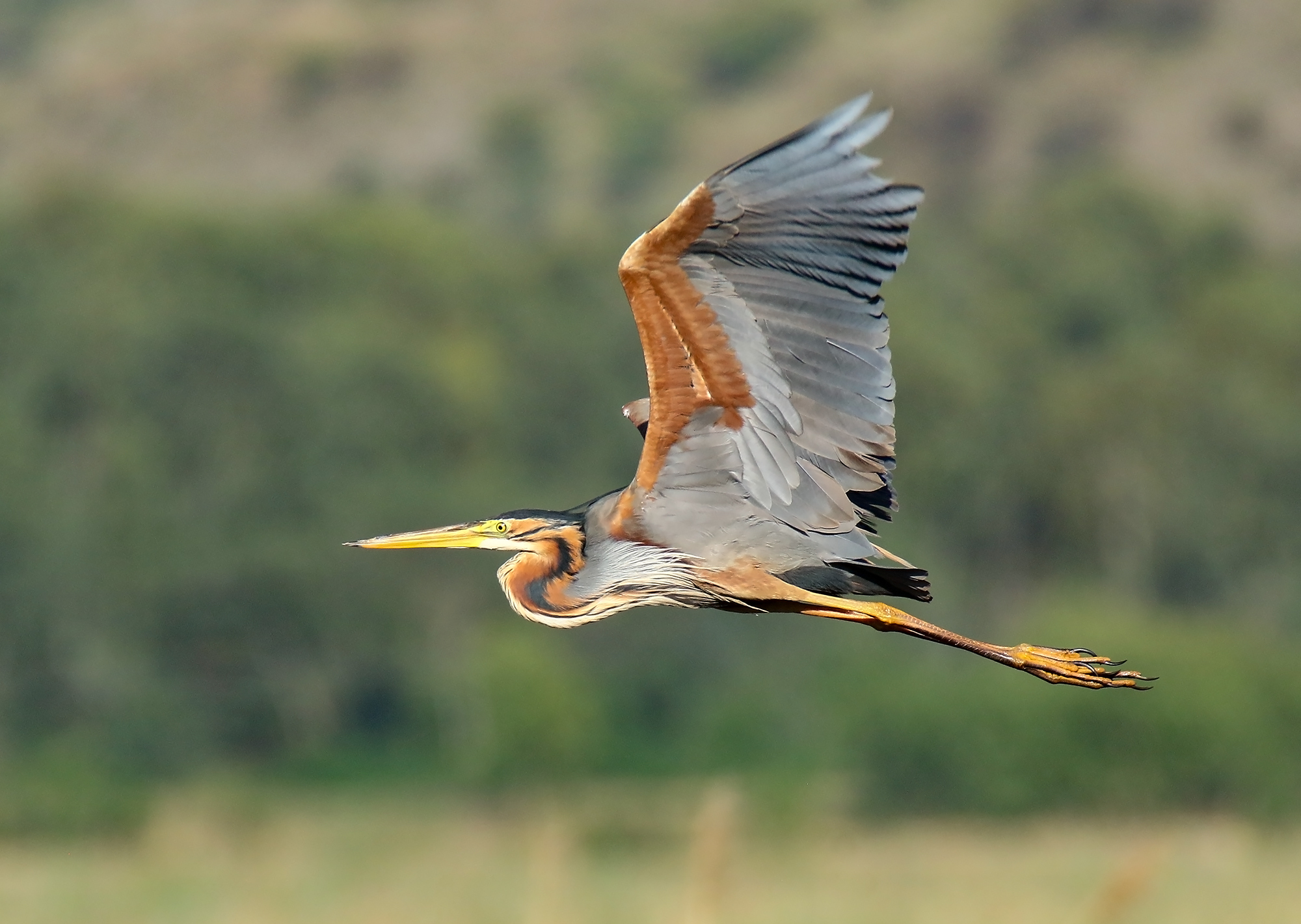 Purple Heron (Ardea purpurea) captured at Kallar Khar, Chakwal, Punjab, Pakistan with Canon EOS 7D Mark II